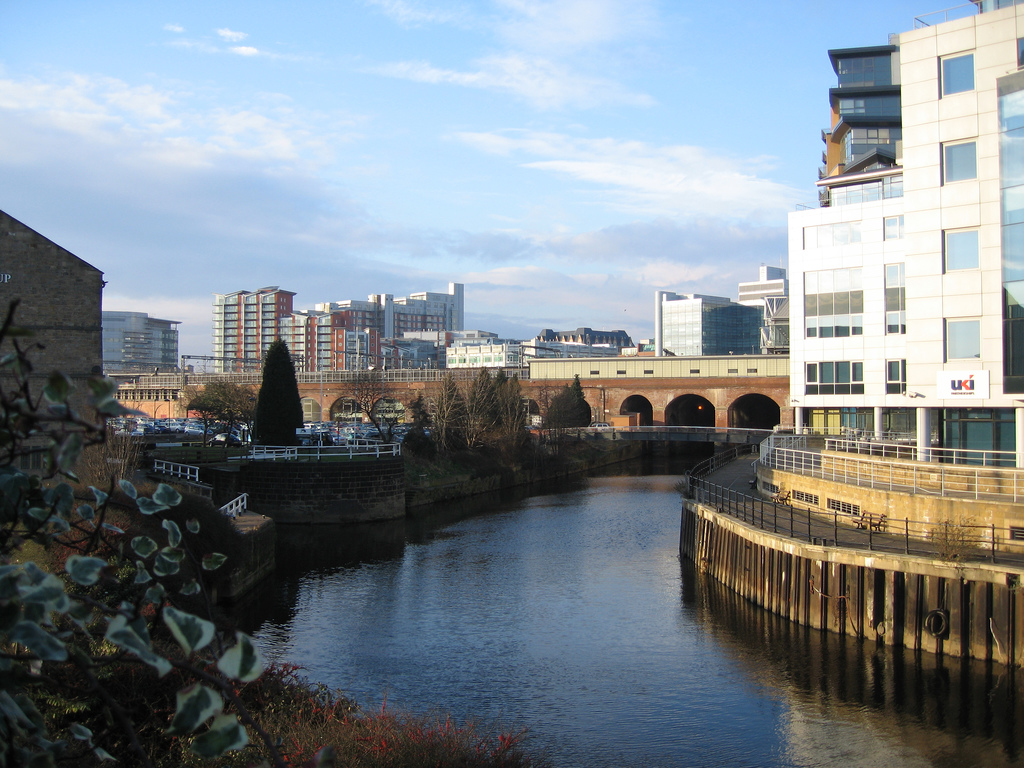 The river Aire, flowing in the area between Holbeck and the Leeds CBD.